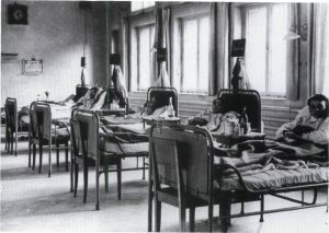 "English" suffragettes on hunger strike. 1909 by Elin Wagner via Photograph. Danske Kvinders Fotoarkiv, KVINFO, Copenhagen